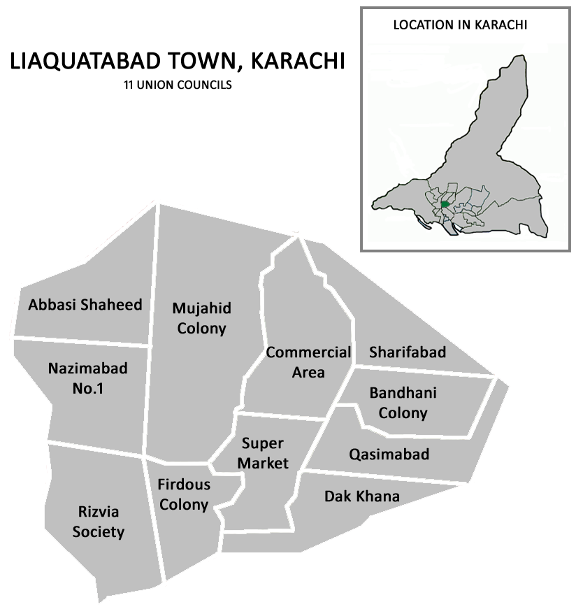 Union councils of Liaquatabad Town, Karachi.